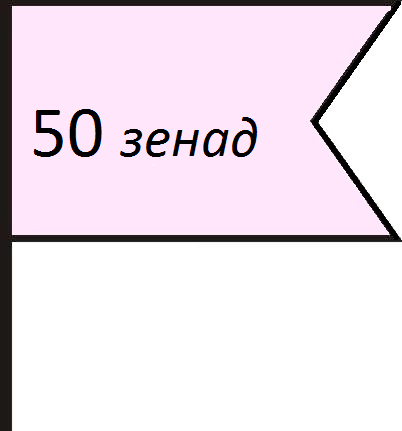 Sign antiaircraft artillery division, air defense in tactical map